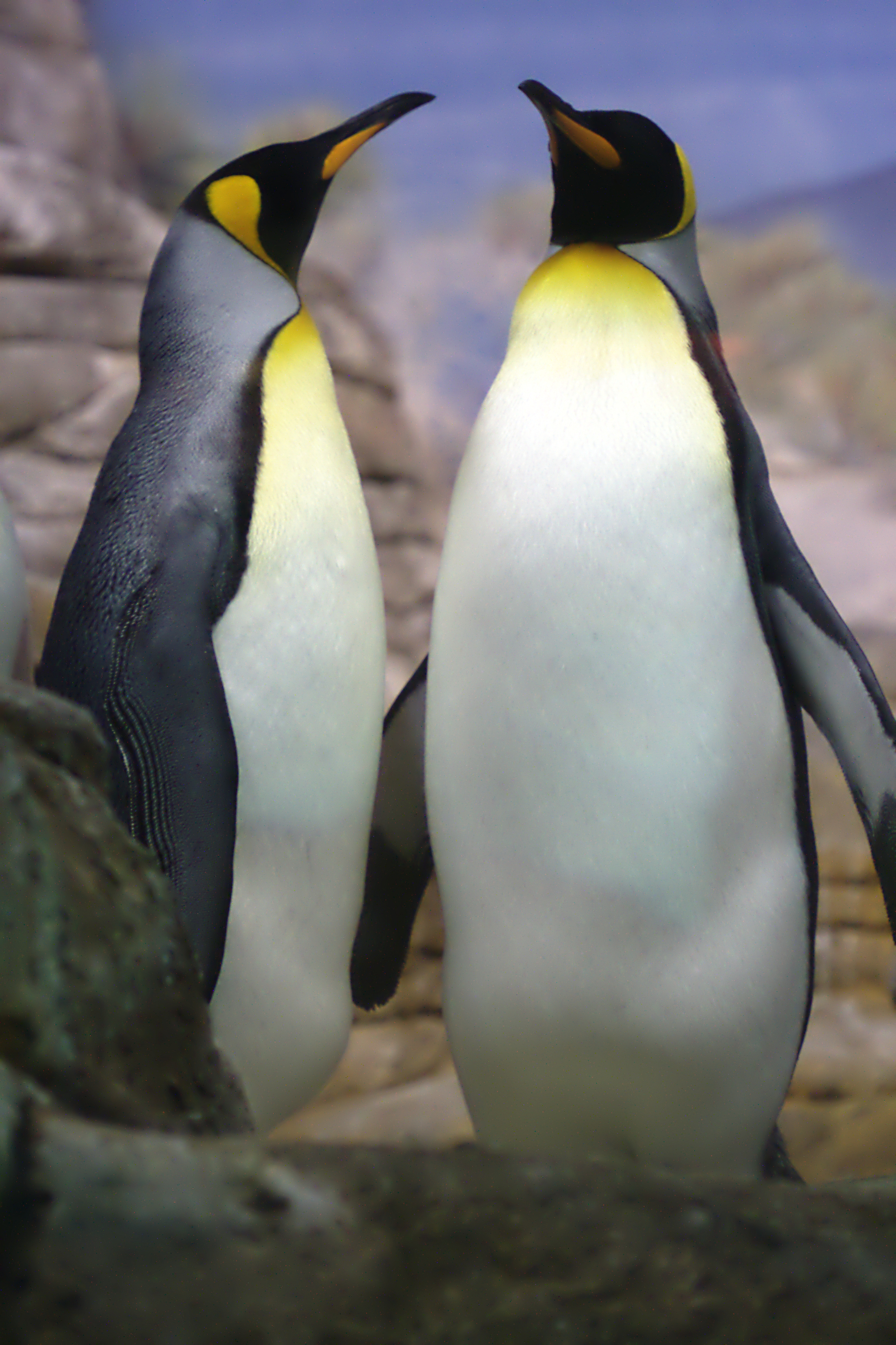 King Penguin (Aptenodytes patagonicus) at Milwaukee County Zoological Gardens, USA.